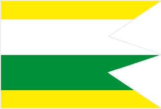 Vlajka_Svaty_Anton.png